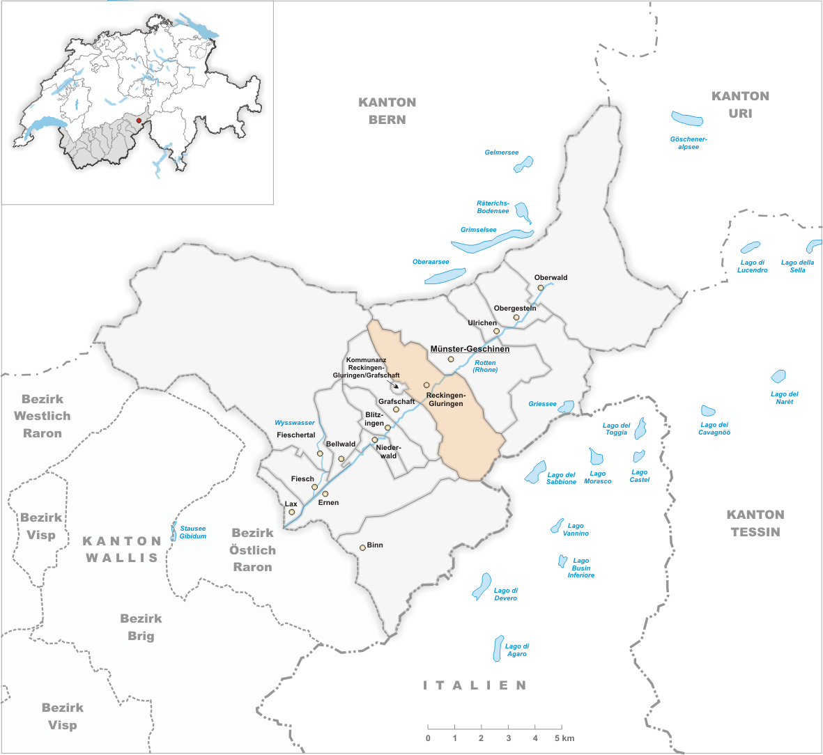 Municipality Reckingen-Gluringen